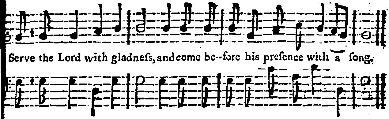 Fleuron from book: A book of psalmody: containing chanting-tunes for Venite exultemus, Te Deum laudamus, Benedicite, Benedictus, Jubilate Deo, Magnificat, Nunc Dimittis, Cantate Domino, and the reading-psalms, with eighteen anthems, And Variety of Psalm-Tunes in Four Parts. The ninth edition, corrected and enlarged. By James Green.